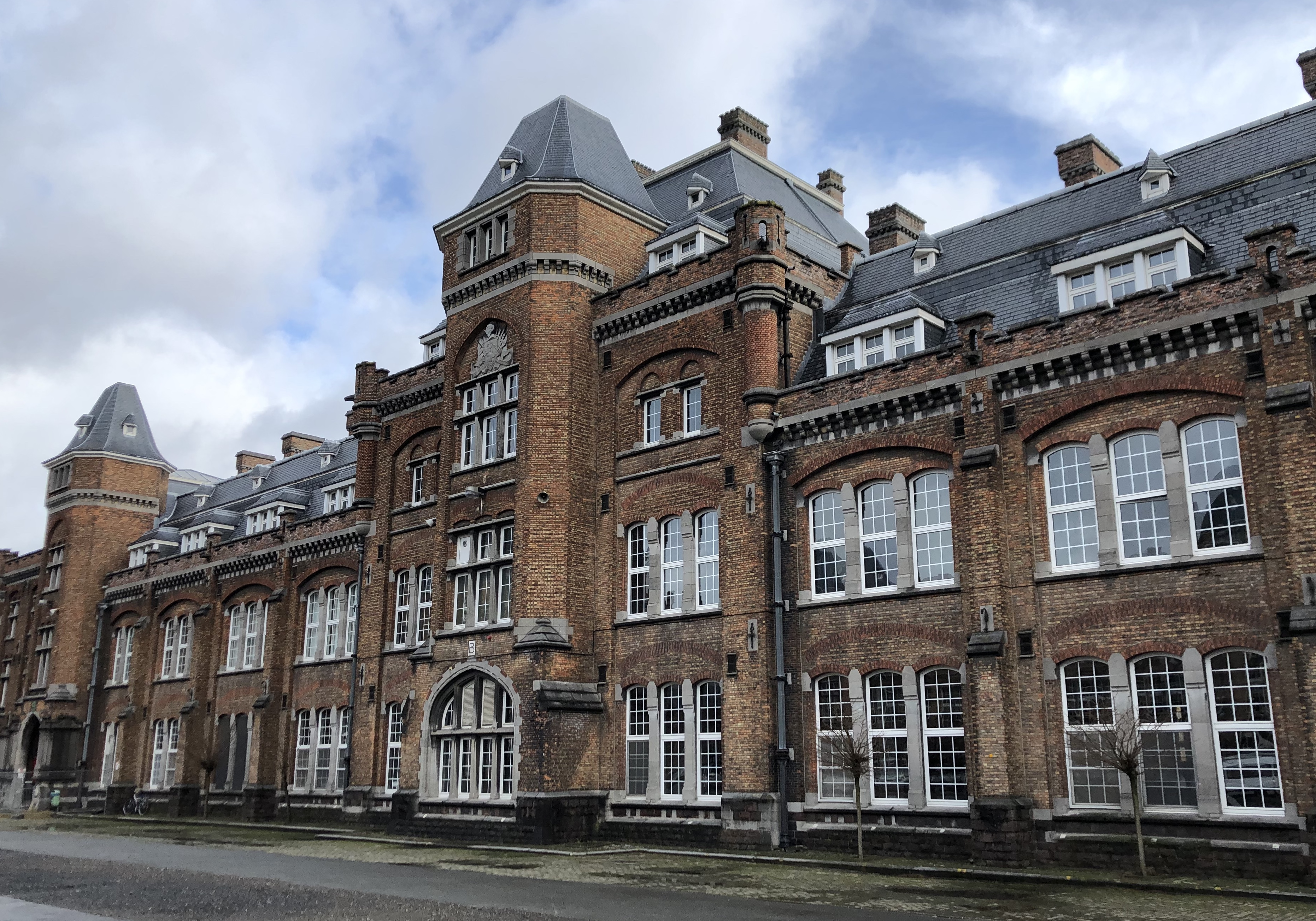 HISK facade